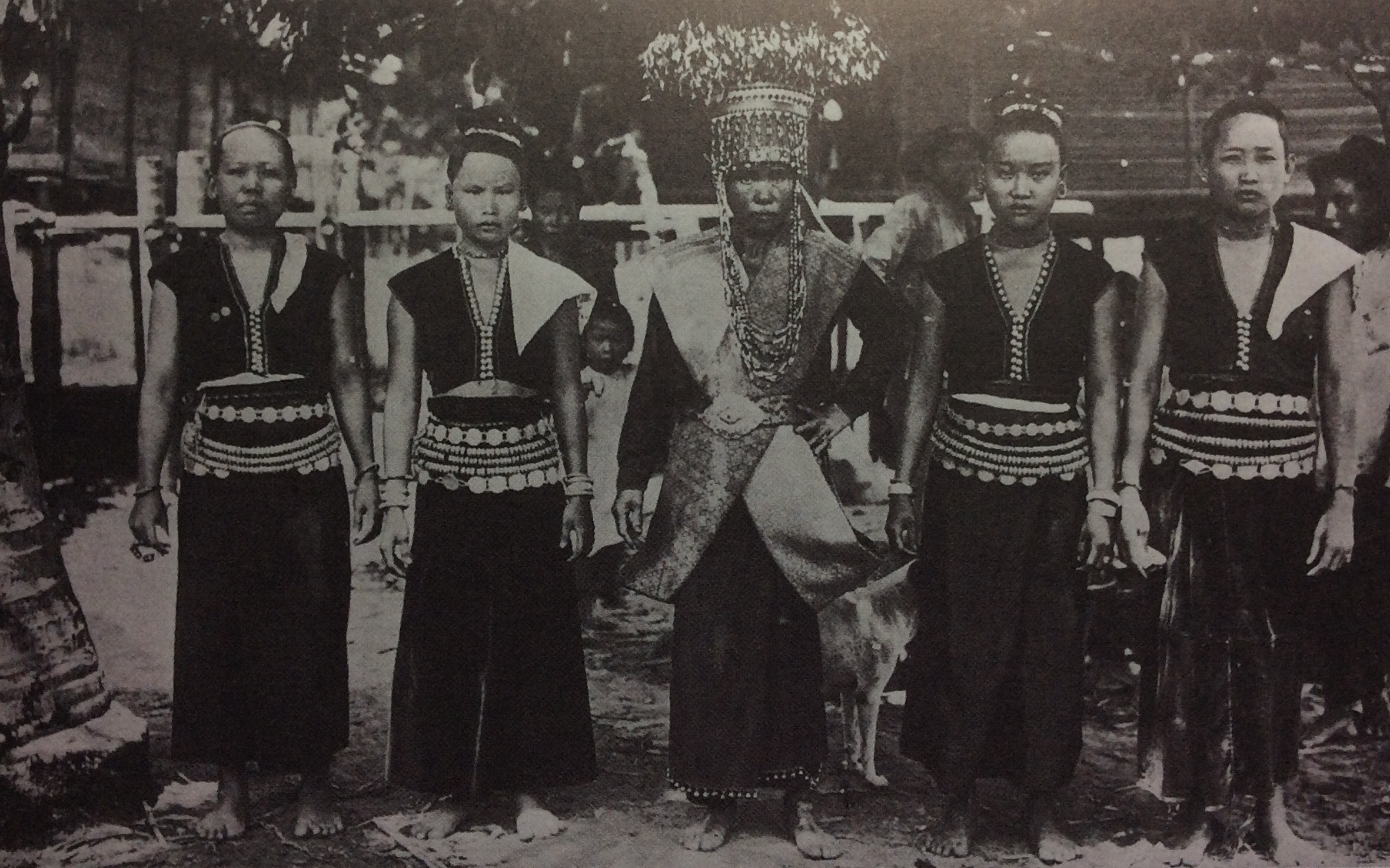 Kadazan priestess